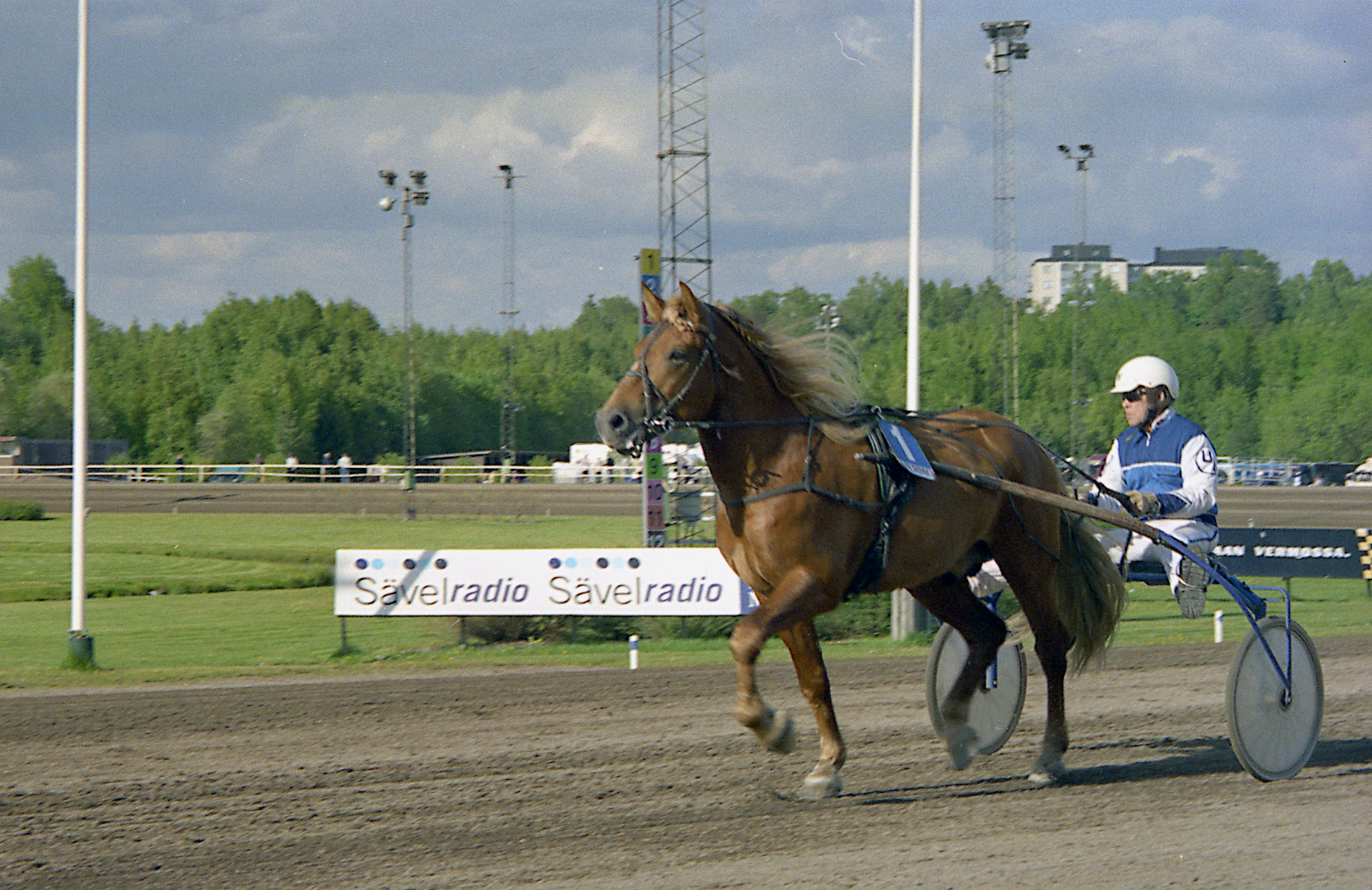 A Finnhorse stallion being driven "the wrong way" in introduction before the second start of the day. Vermo in spring 2004. Picture features the eastern end of the course.